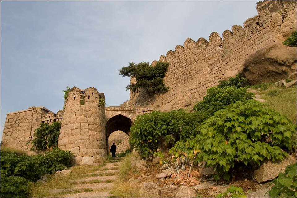 భువనగిరి కోట